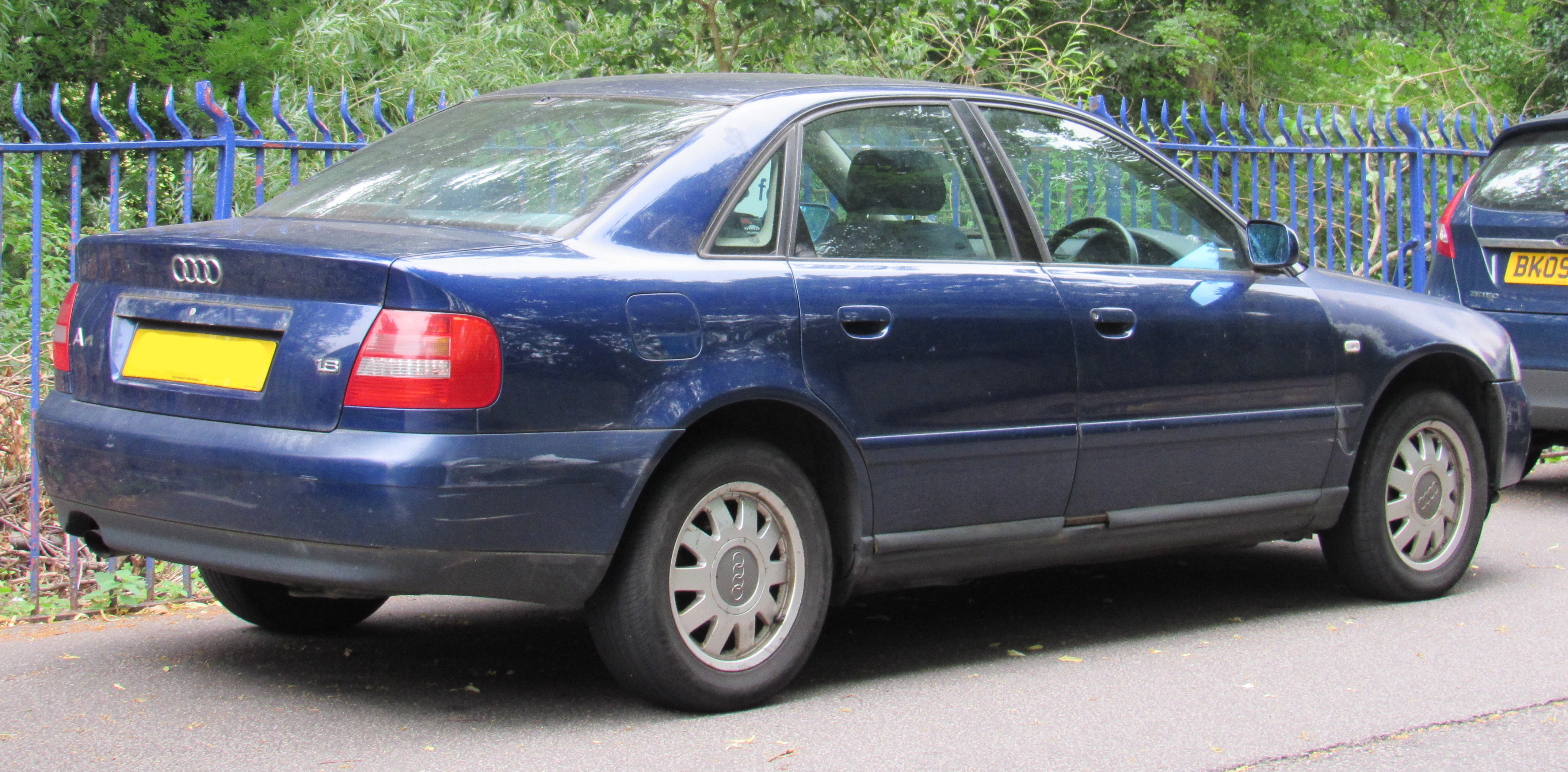 1999 Audi A4 1.8 Rear Taken at Warwick Train Station